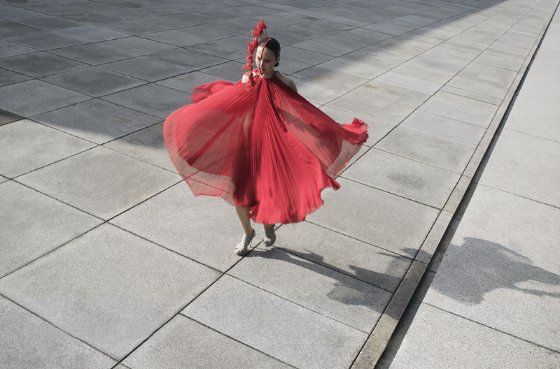 Dawid Tomaszewski SS 2011, photo by Michal Martychowiec.